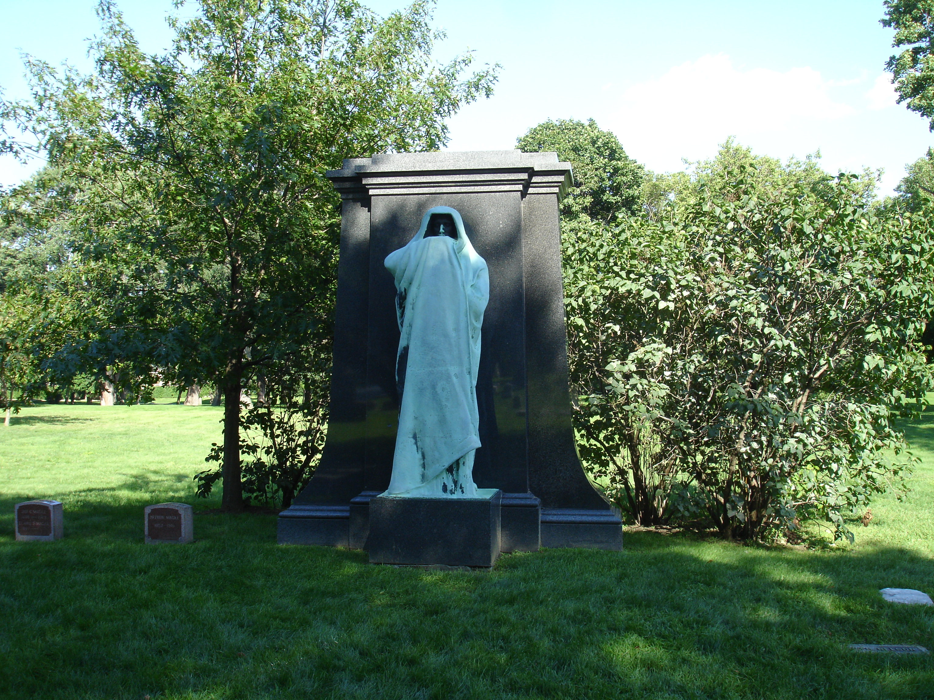 Eternal Silence, (1909), Lorado Taft. Monument to early Chicago settler Dexter Graves in Graceland Cemetery.